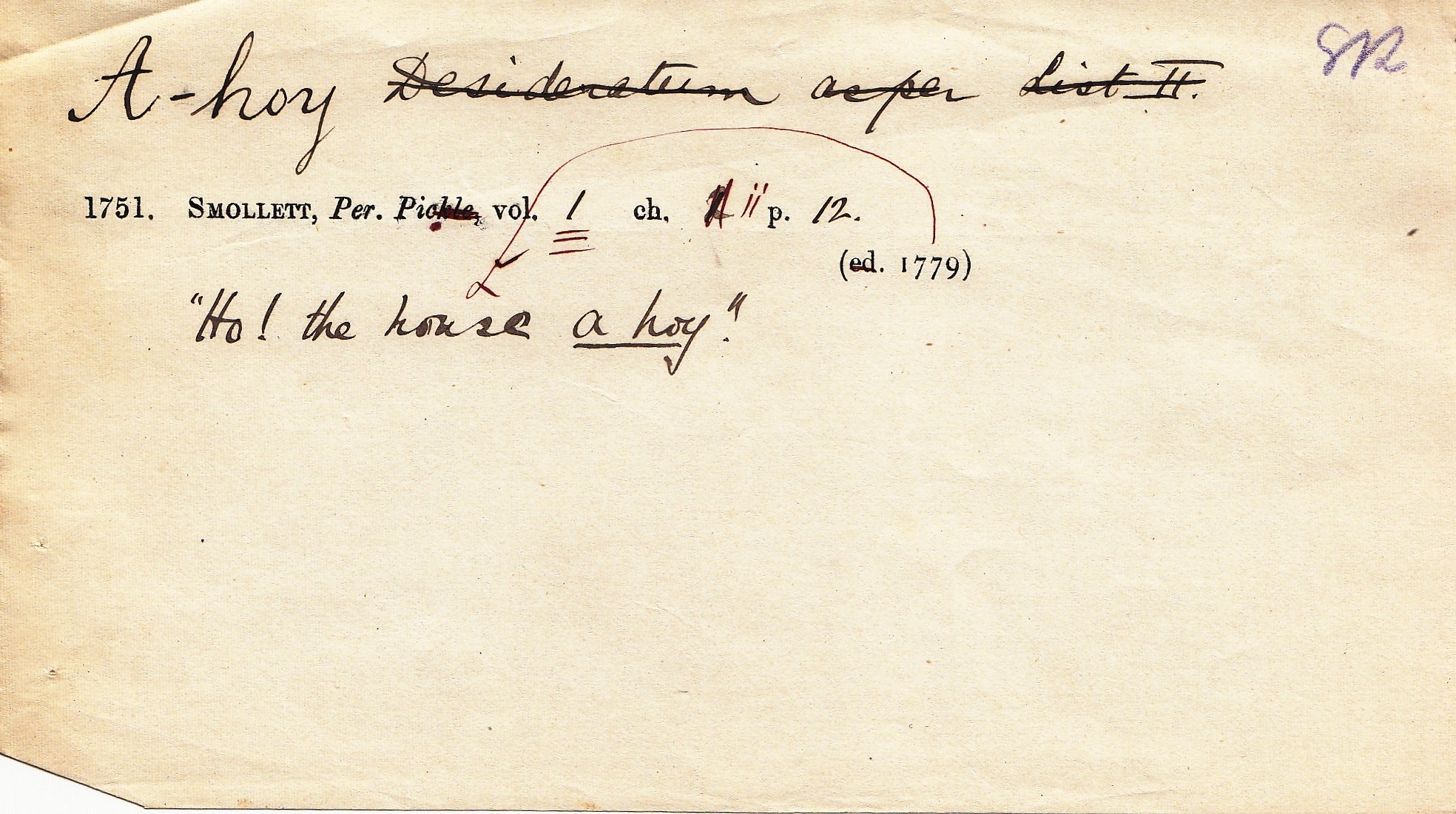 Clip with the entry "ahoy" for the Oxford English Dictionary, earliest english proof, Smollett 1761